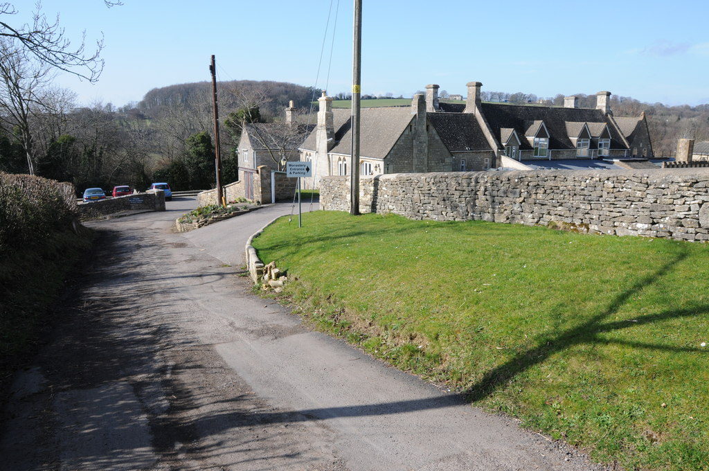 Monastery of Our Lady of St BernardThe Monastery of Our Lady of St Bernard is situated at Brownhills, above the Stroud valley.